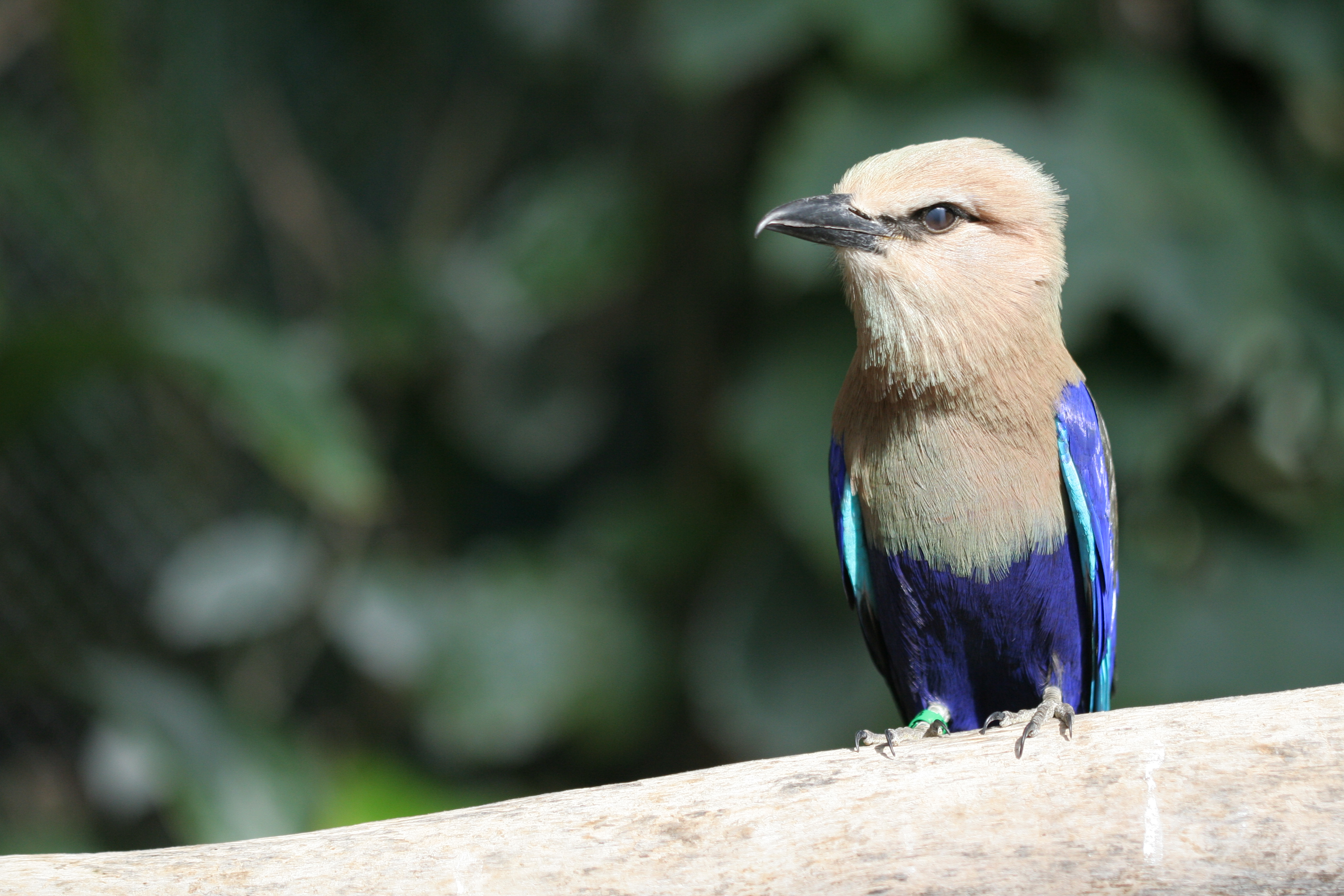 Blue-bellied Roller (Coracias cyanogaster). Bird in captivity at Zoo Calgary.